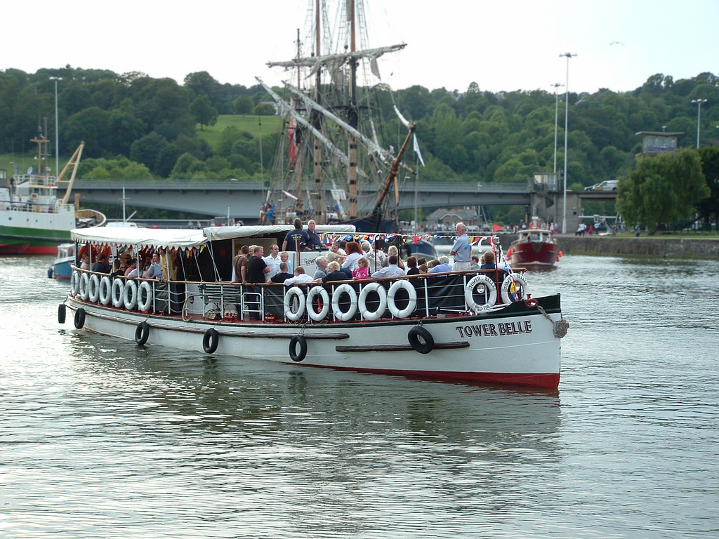 MV Tower Belle in the Cumberland Basin in the company of a tall ship